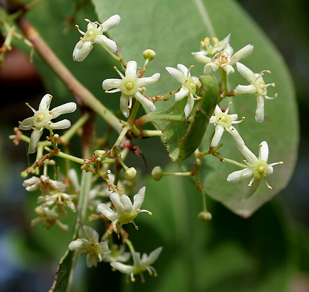 Gymnosporia montana (Roth) Benth. at Deer Park in Shamirpet, Rangareddy district, Andhra Pradesh, India.